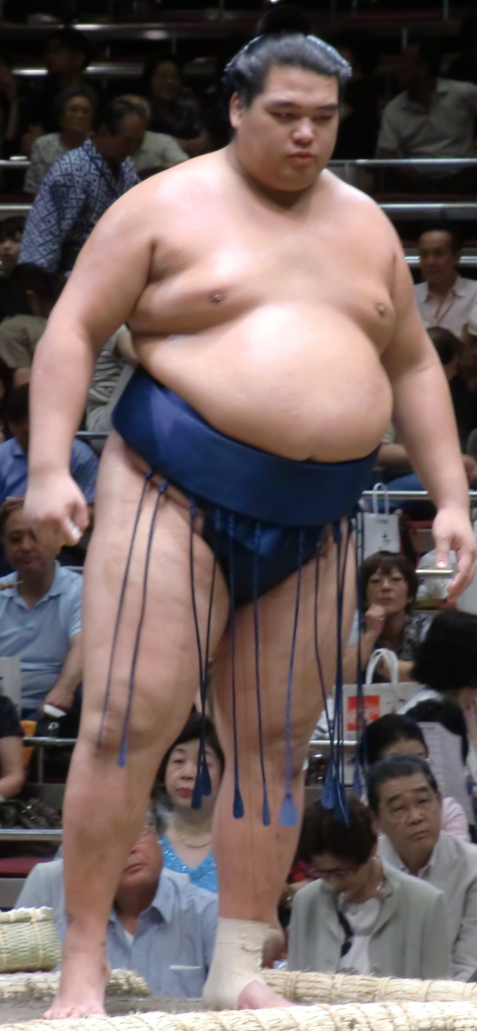 taken at Sept 2011 tournament